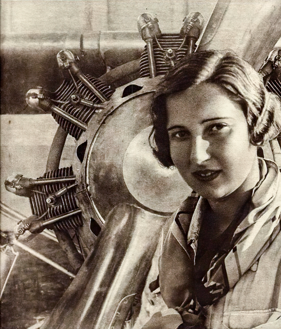 Sepia -- higher quality.